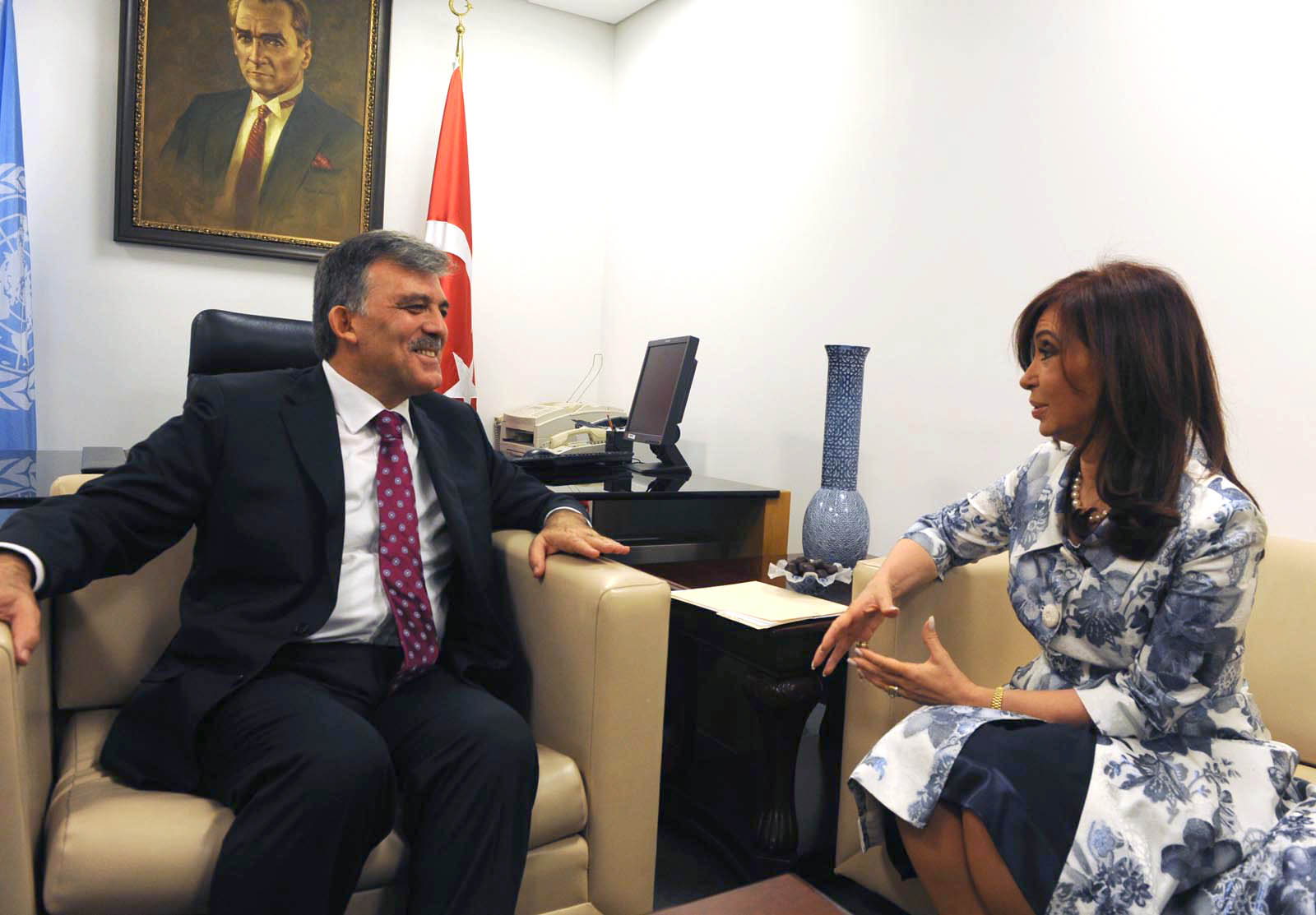 Argentine president Cristina Fernandez de Kirchner and president of Turkey Abdullah Gül met at New York before the General Assembly of the United Nations